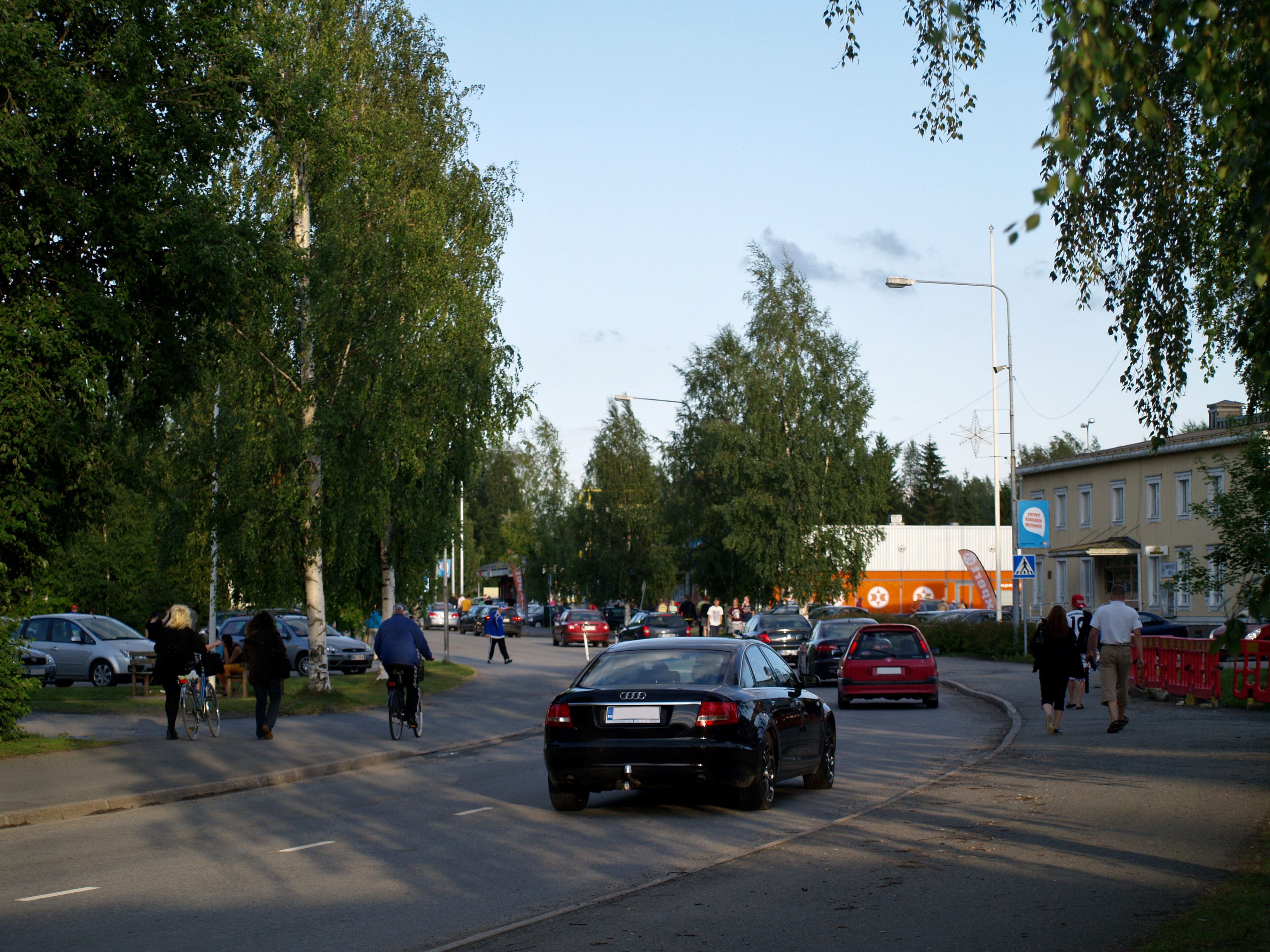 Vimpeli downtown after pesäpallo-match, August 2014.